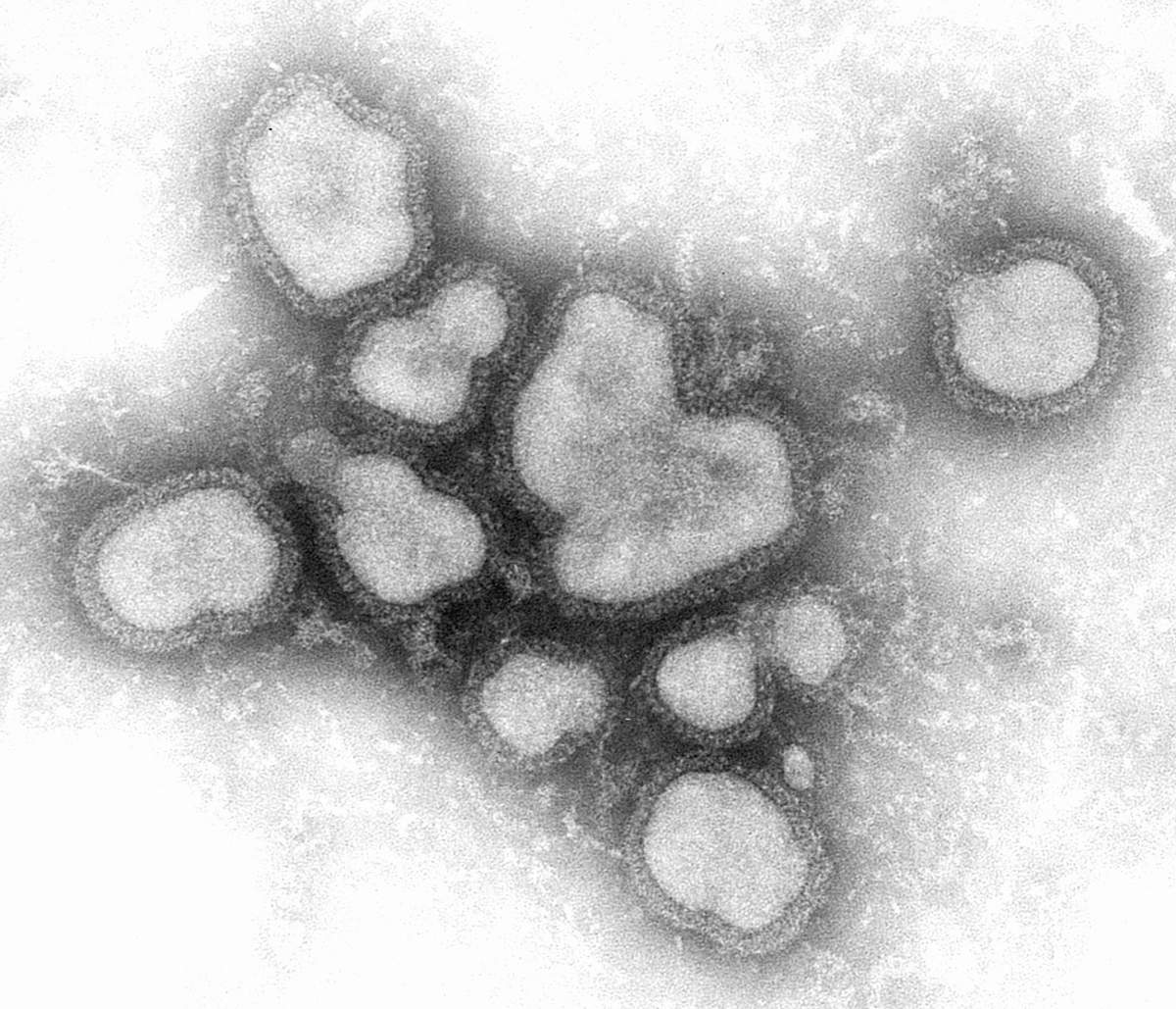 ID#: 1838 Description: Negative stain image of the influenza A virus. Transmission electron micrograph, negative stain image of the influenza A virus. Content Providers(s): CDC/F. A. Murphy Creation Date: 1976 Copyright Restrictions: None - This image is in the public domain and thus free of any copyright restrictions. As a matter of courtesy we request that the content provider be credited and notified in any public or private usage of this image.